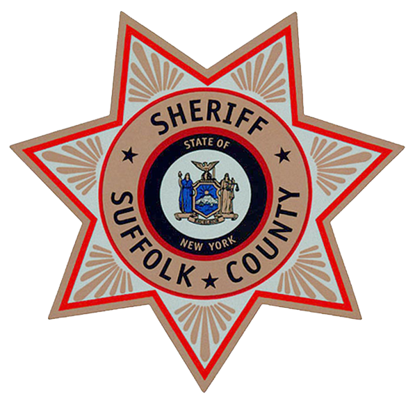 Image is similar if not identical to the seal of the Suffolk County Sheriff's Office, New York. Made with Photoshop.